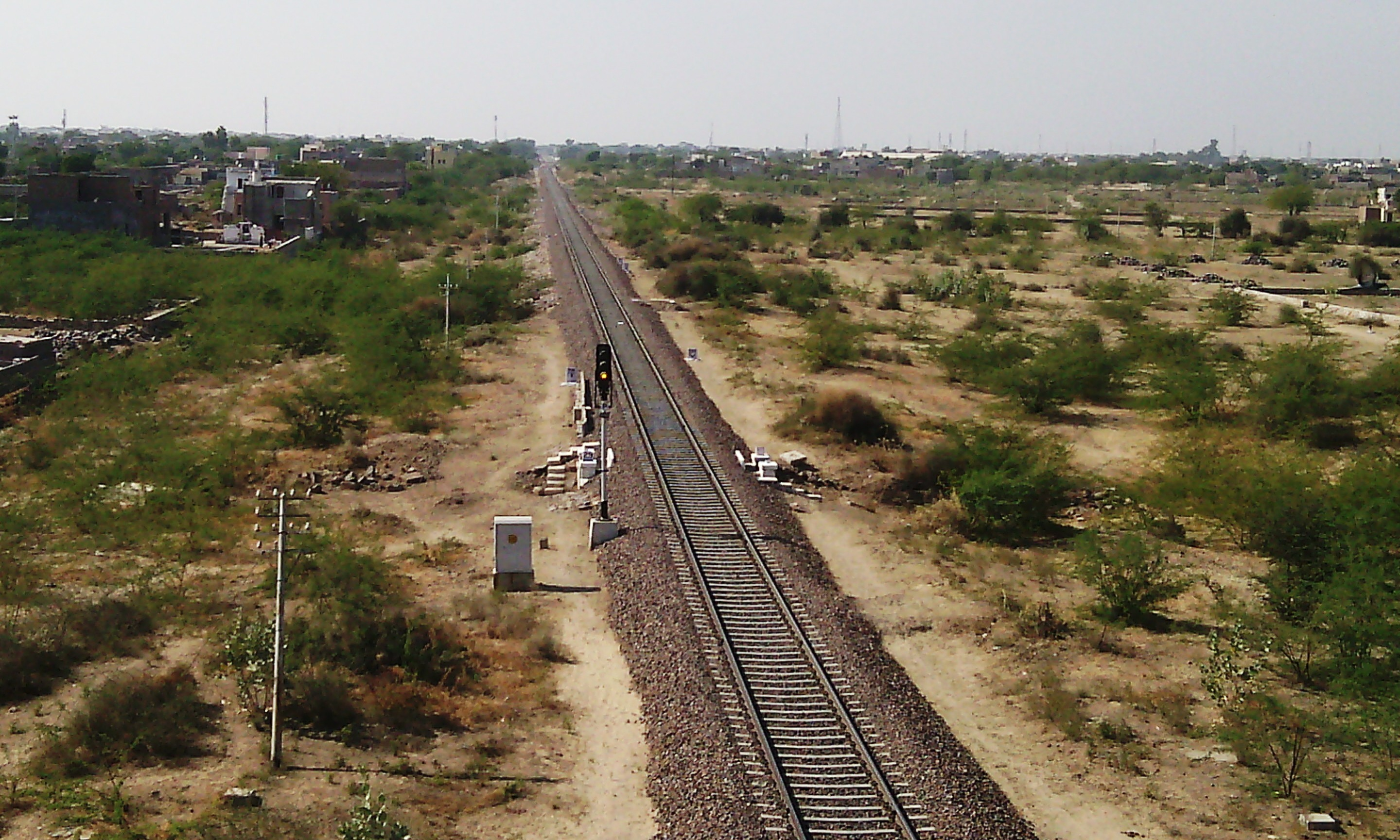 रेल्‍वे ओवरब्रिज रे बालोतरा शहर का नजारा